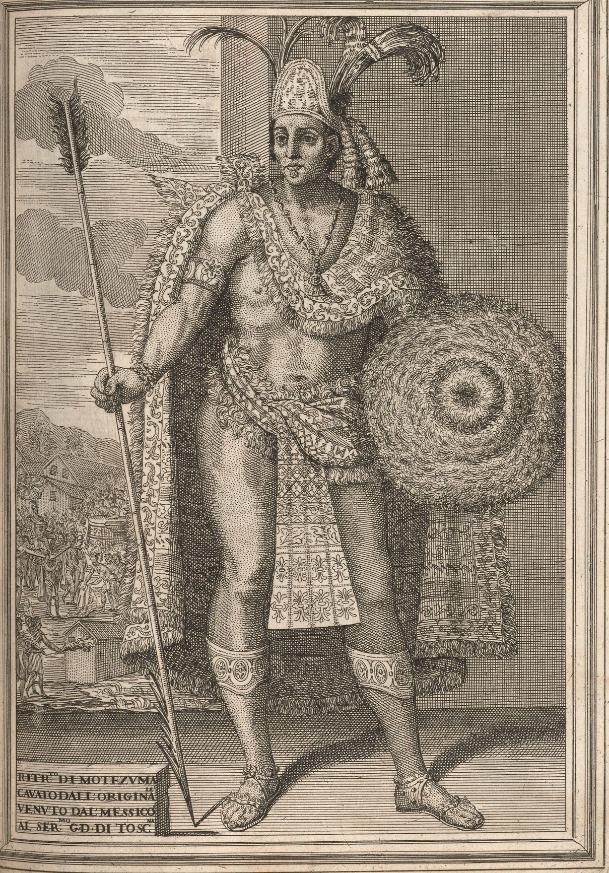 "Motezuma" from Istoria della conquista del Messico, della popolazione, e de’ progressi nell’America Settentrionale conosciuta sotto nome di Nuova Spagna, 1699, by Antonio de Solís (1610-1686). Istoria della conquista del Messico - Motezuma Typ 625.99.800, Houghton Library, Harvard University